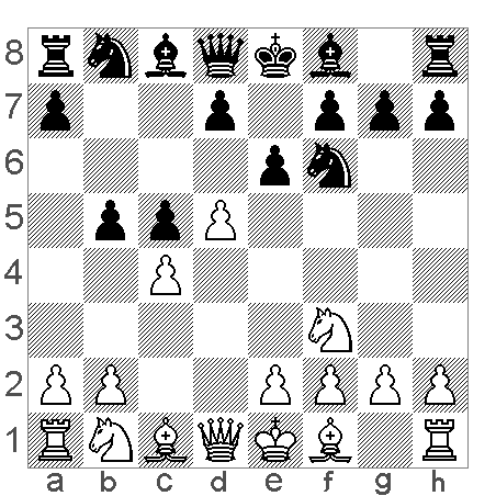 chess diagram Blumenfeld counter gambit Source: CBlight + my processing